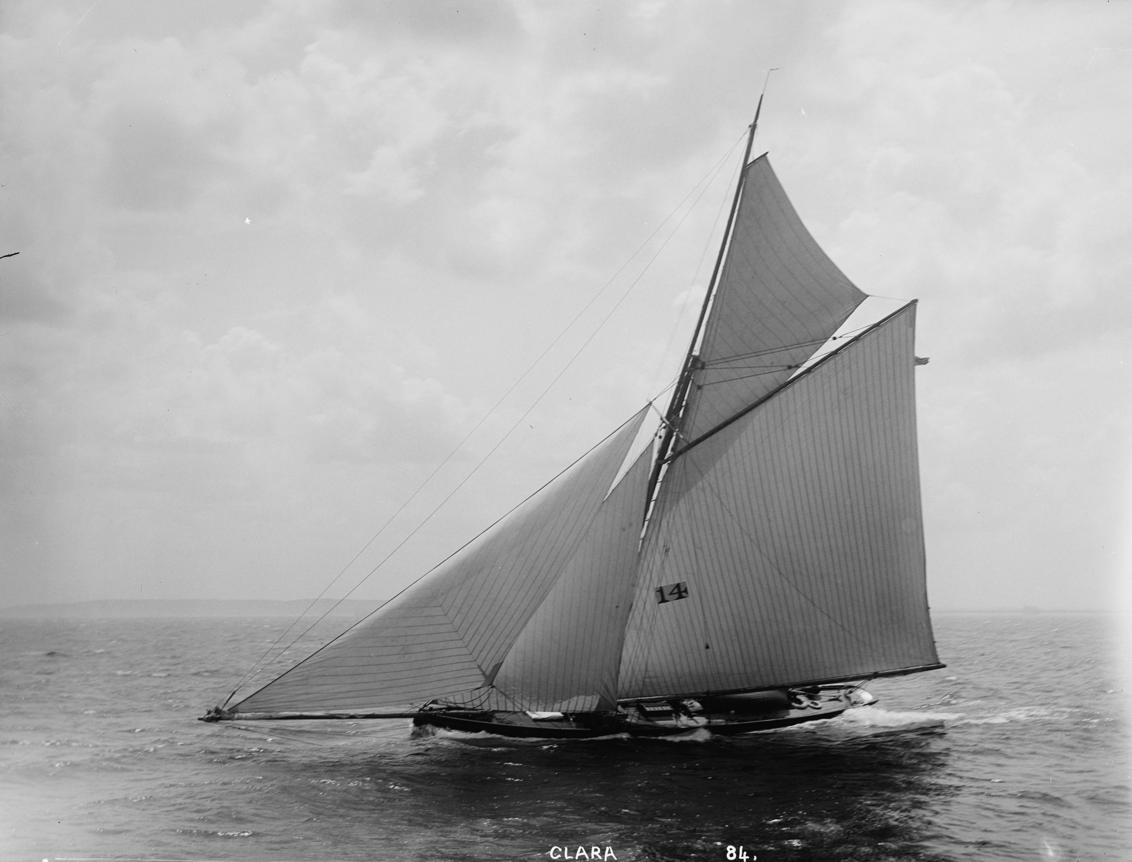 The 20-tonner Clara (William Fife design, built in 1884 at the Culzean Castle shipyard). She was sailed to America by Captain John Barr, where she won all her races in her first season there in 1886.